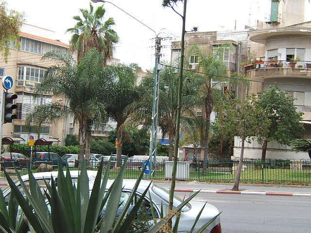 The small Shoter garden in Bugrashov street in Tel Aviv